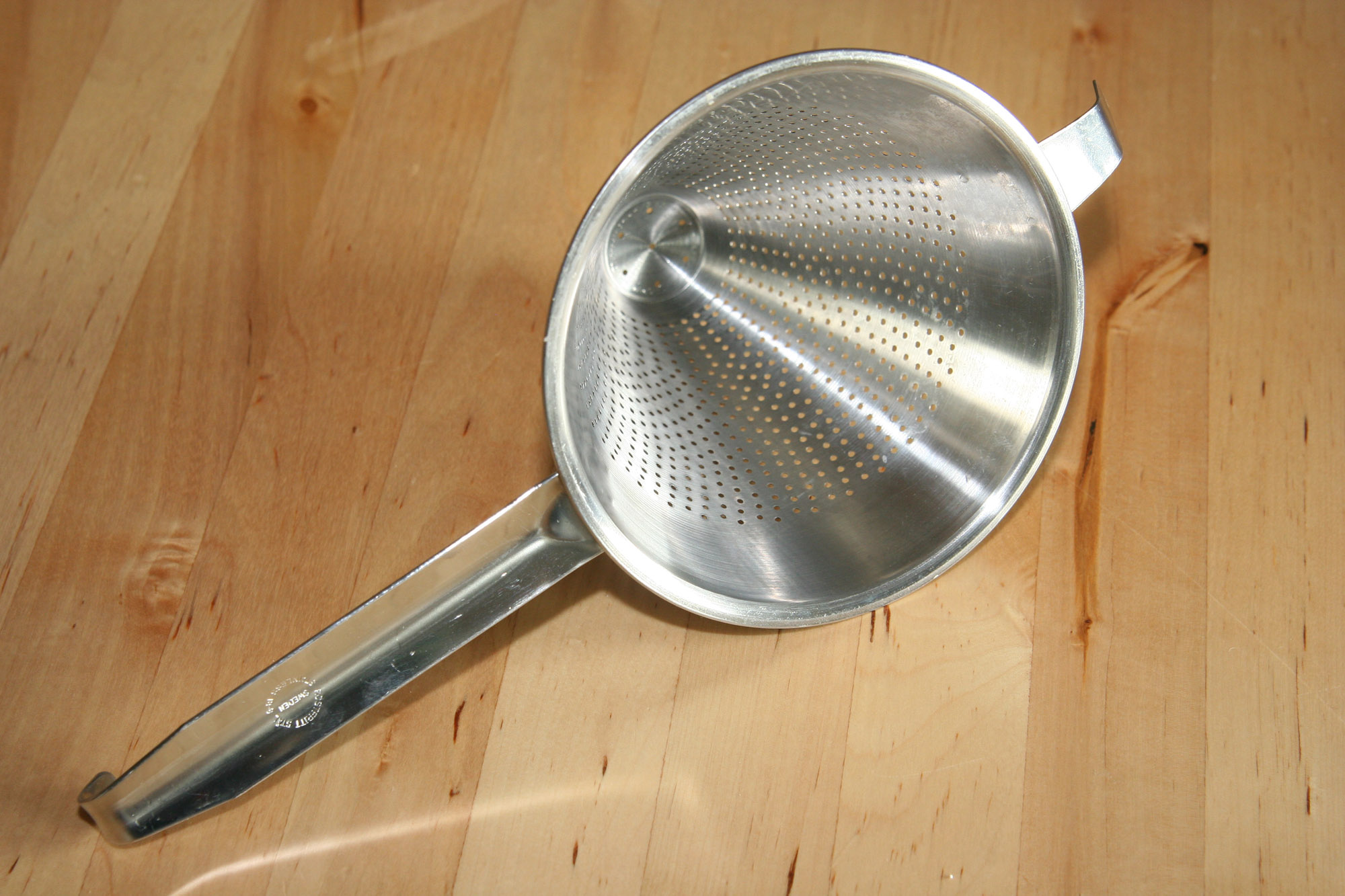 A chinois strainer.